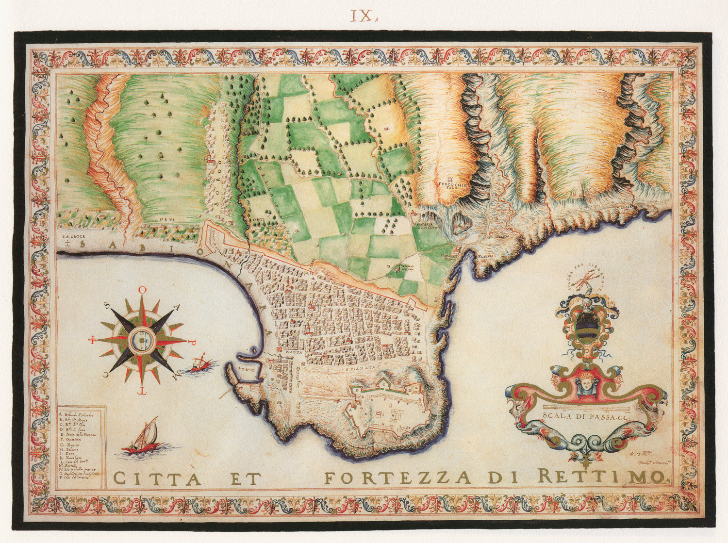 Città, et Fortezza di Retimo - Francesco Basilicata - 1618